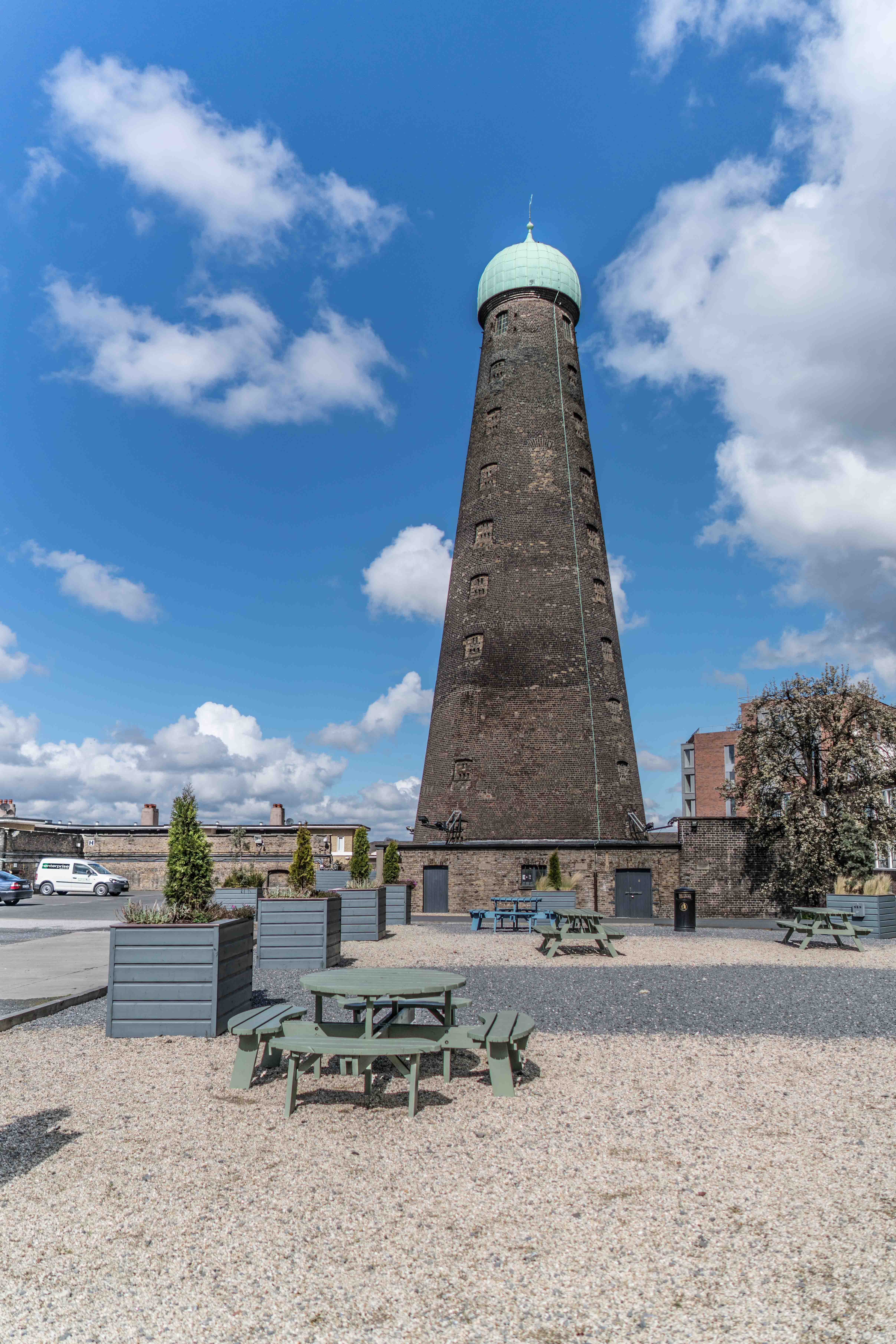 St. Patrick's Tower, a smock windmill in Dublin, Ireland. Once part of Roe's Whiskey distillery, the tower is now part of the Guinness brewing complex.